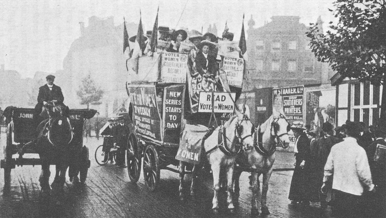 Members of the Women's Social and Political Union campaigning for women's suffrage in Kingsway